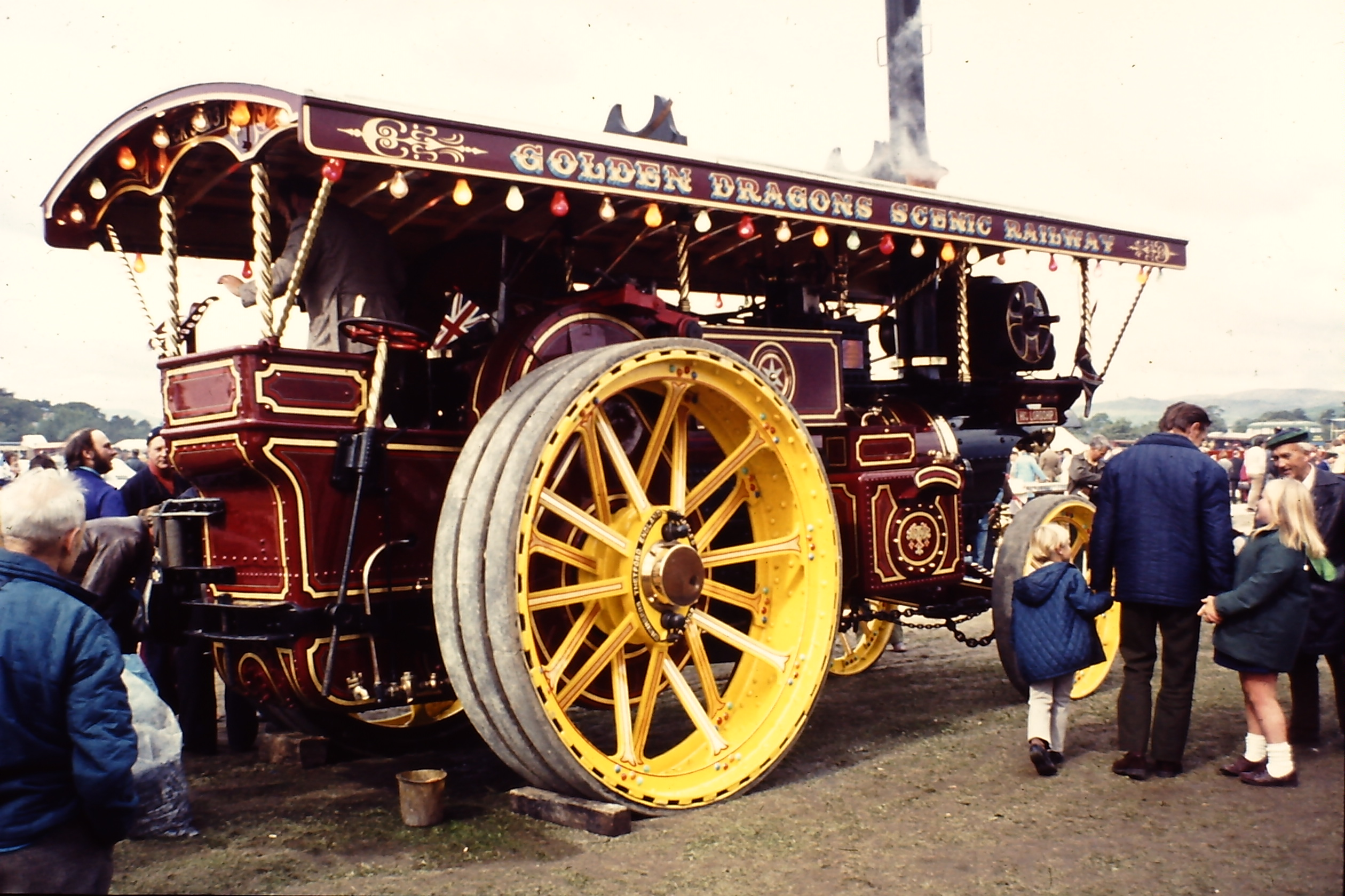 Burrell 10nhp Showman's Road Locomotive, His Lordship. Part of the Tom Varley collection. Probably Kendal steam rally